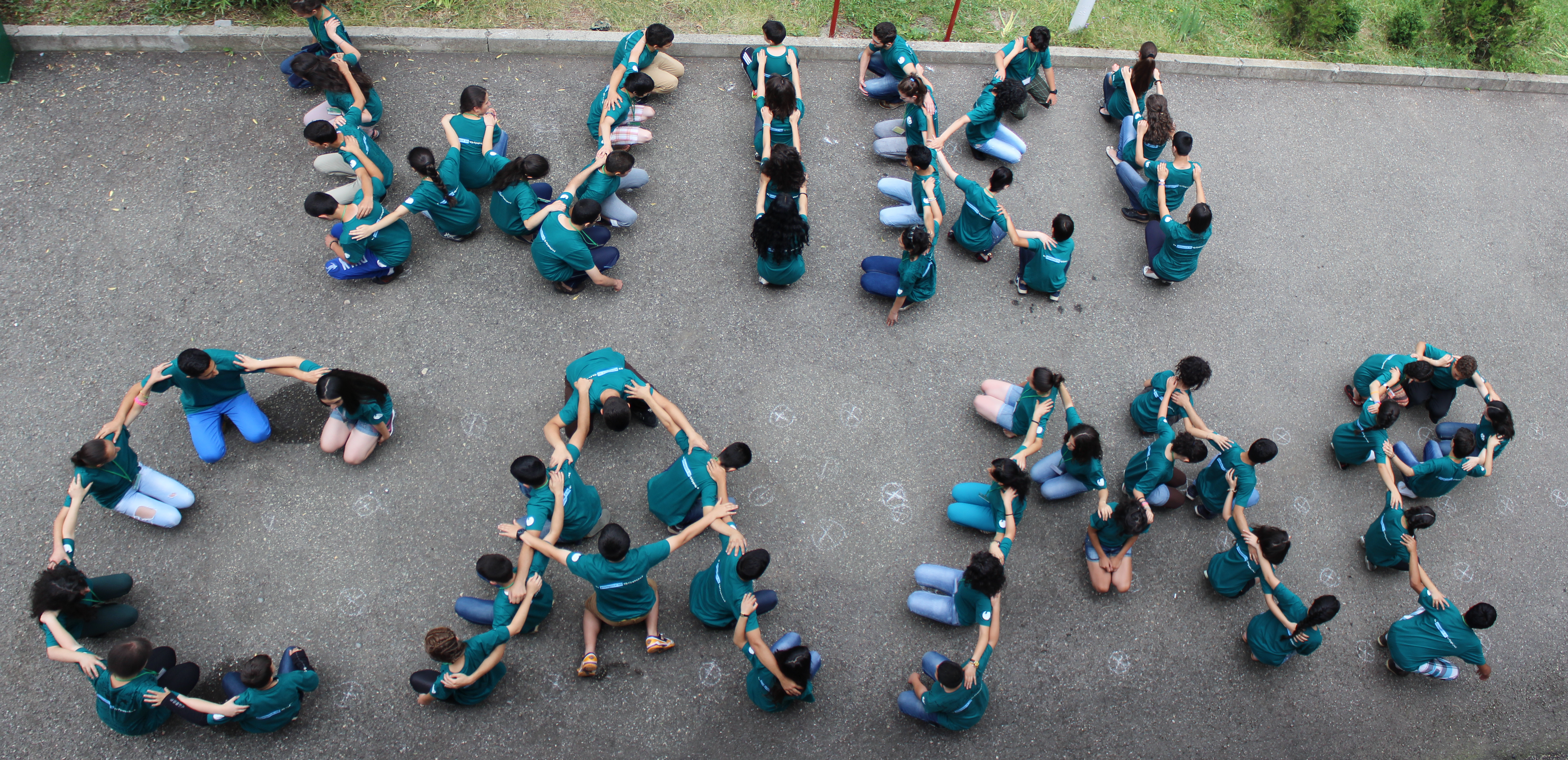 Flashmob during the Wiki camp Armenia 2014.